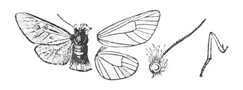 A drawing of Psycharium pellucens (Somabrachyidae).